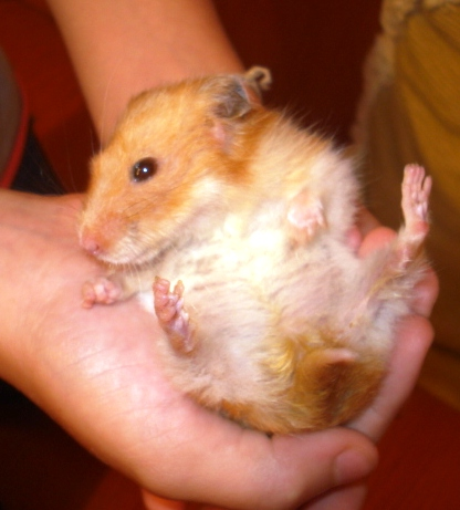 The hamster from user Lucas hamster